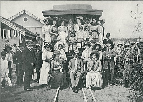 Train Station Lavras, Minas Gerais, Brazil, 1911